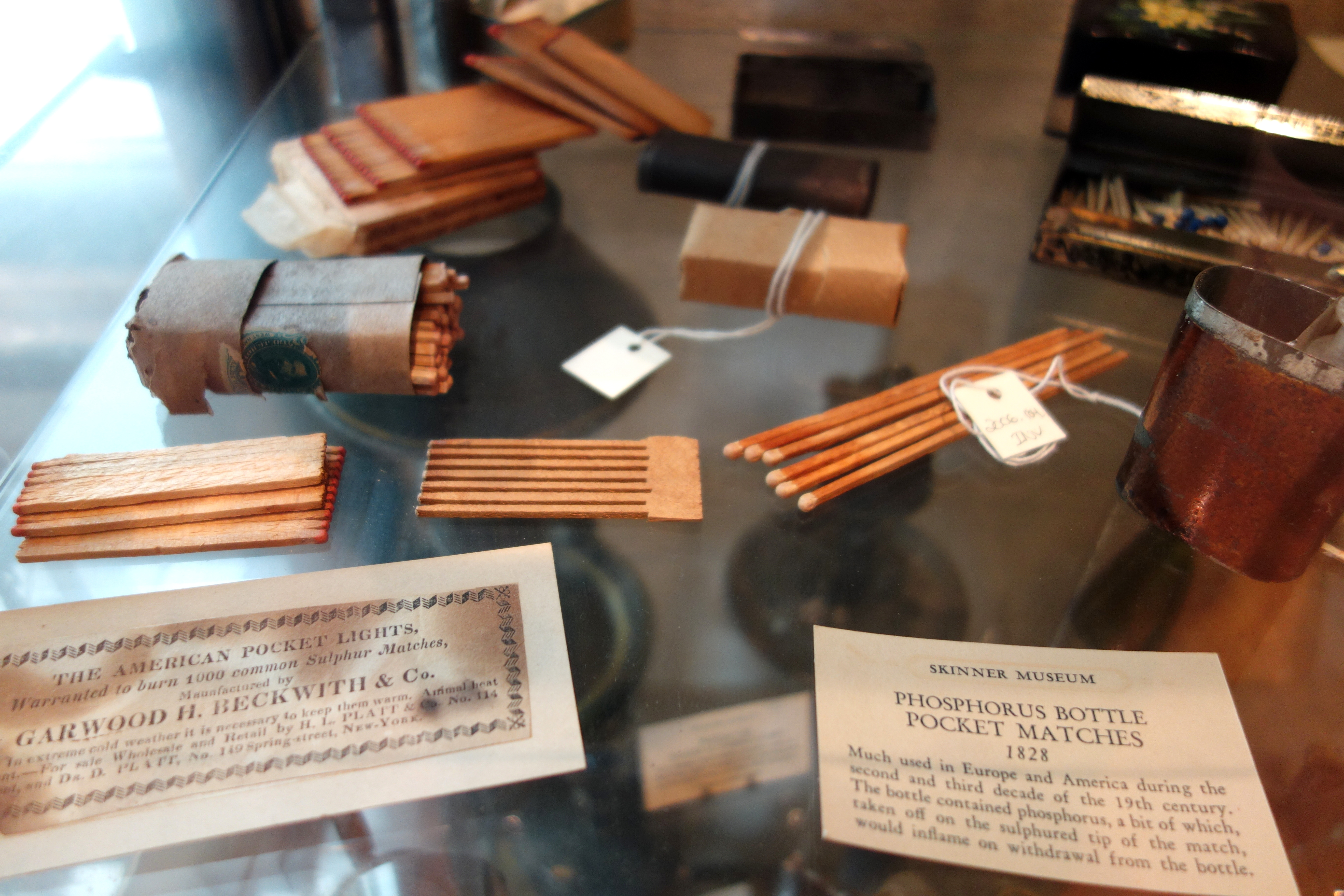 Exhibit in the Joseph Allen Skinner Museum, South Hadley, Massachusetts, USA.